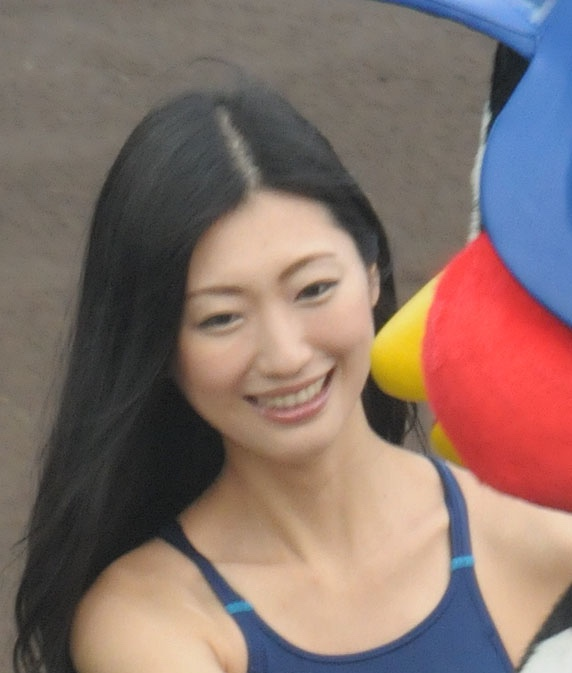 Japanese actress Mitsu Dan at Akita Komachi Baseball Stadium